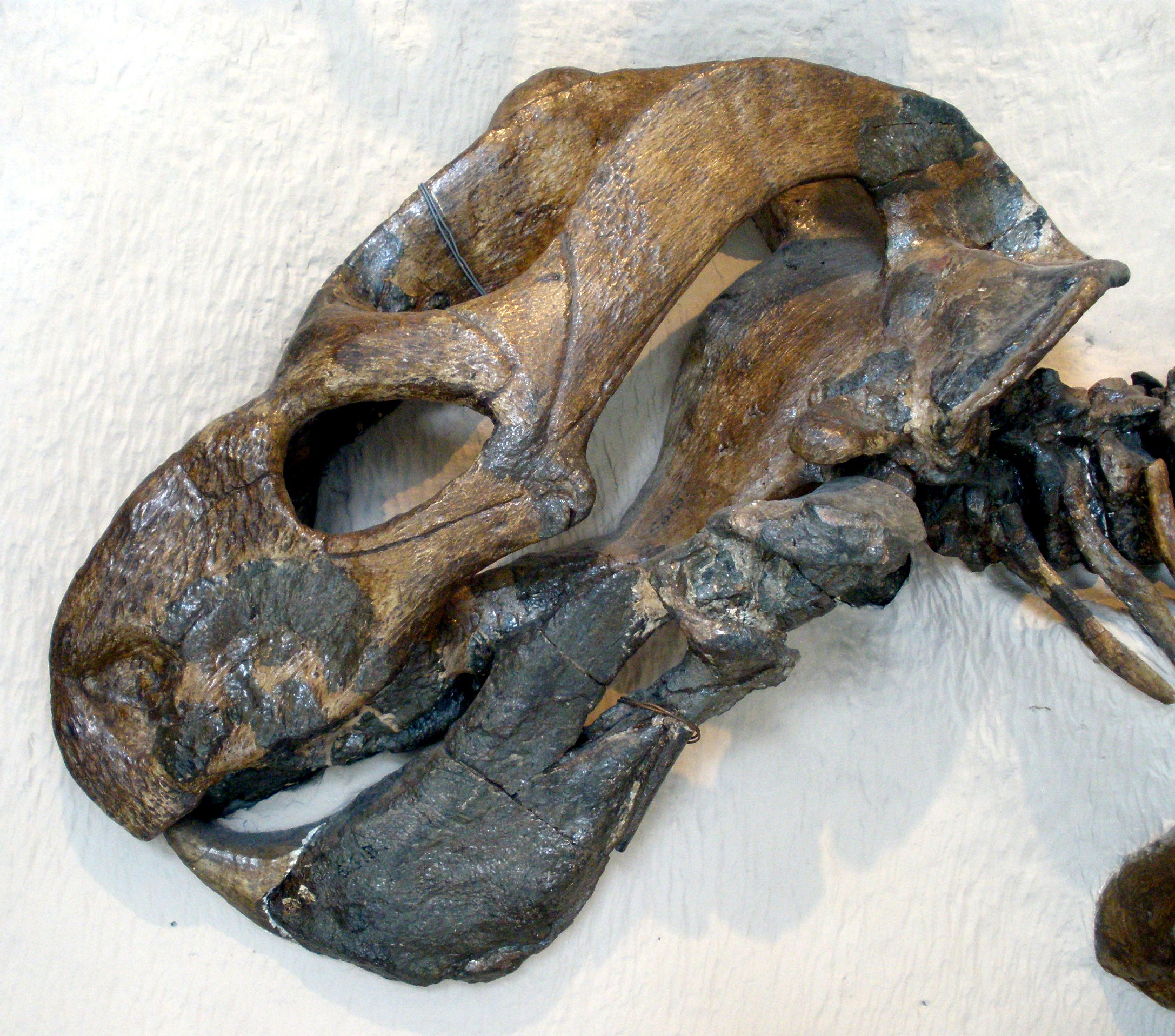 Skull of Endothiodon angusticeps, a fossil dicynodont